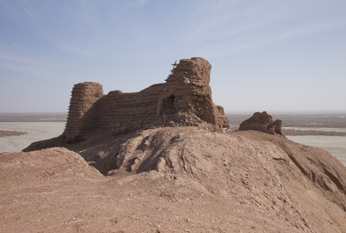 Fort on Mazar-tagh hill, seen from north-west. November 2008.